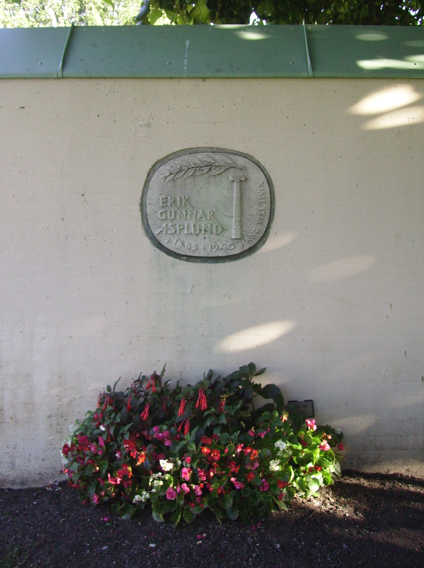 Picture of Erik Gunnar Asplund's grave at Skogskyrkogården in Stockholm.